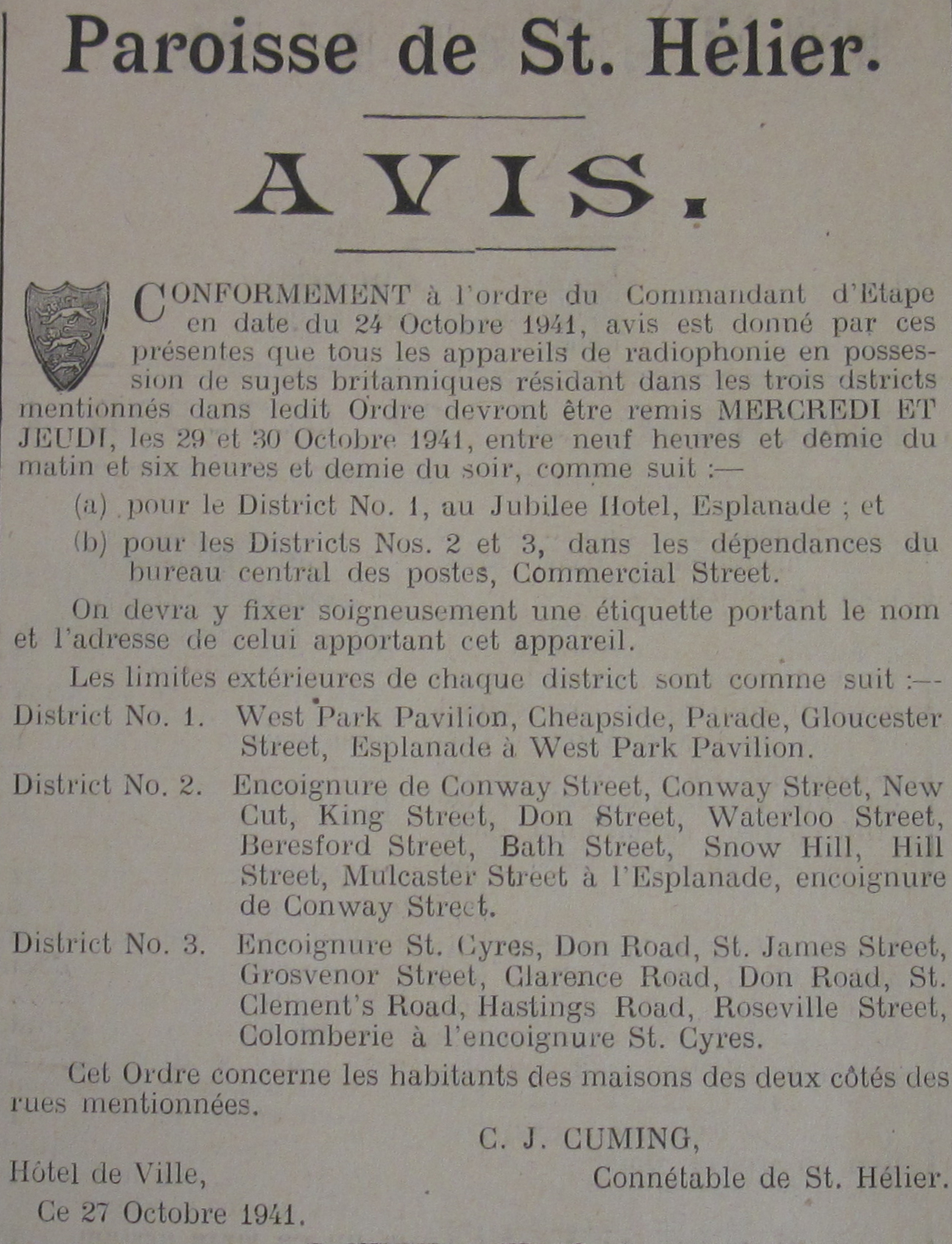 Official notice in Les Chroniques de Jersey, October 1941, about the confiscation of radios from residents of Saint Helier, Jersey, in reprisal for a campaign of resistance against occupying forces.